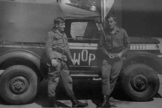 Border Protection Forces in Ustronie Morskie